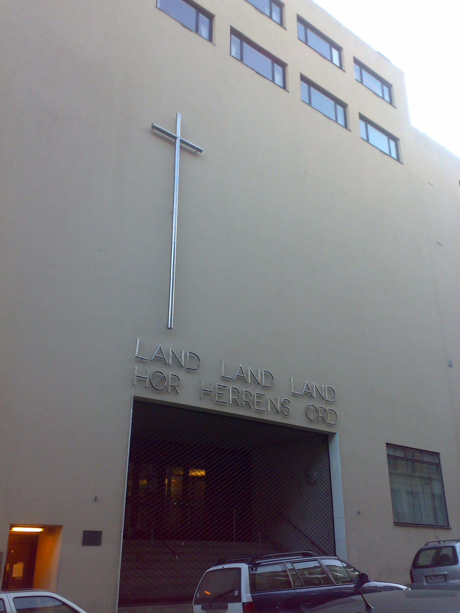 Storsalen Christian Missionary Congregation, entrance, Oslo, Norway